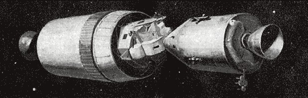 Command/Service Module docking with Lunar Module